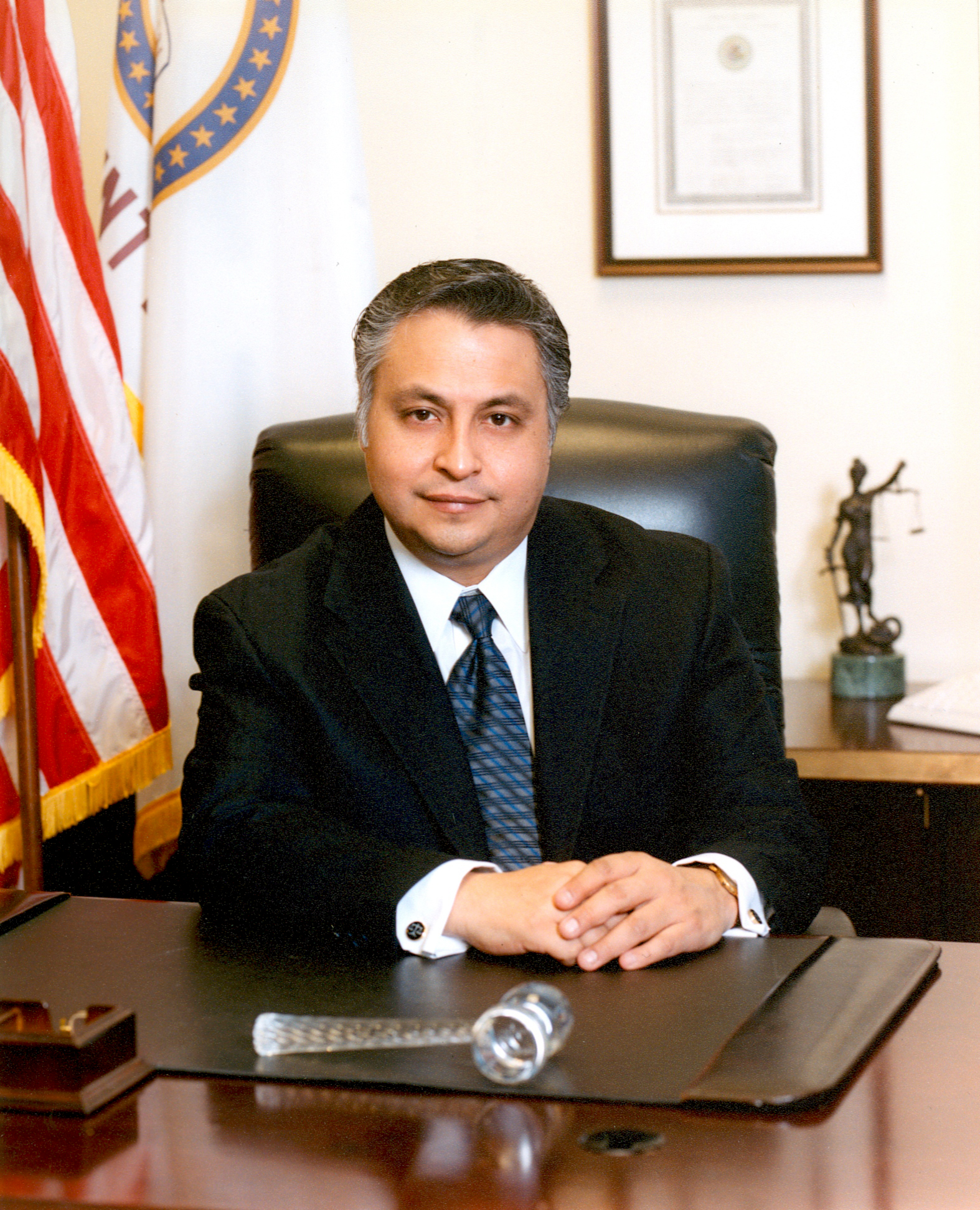 Presiding Judge, 4th Municipal District, Maywood, Illinois 2002 - 2010.